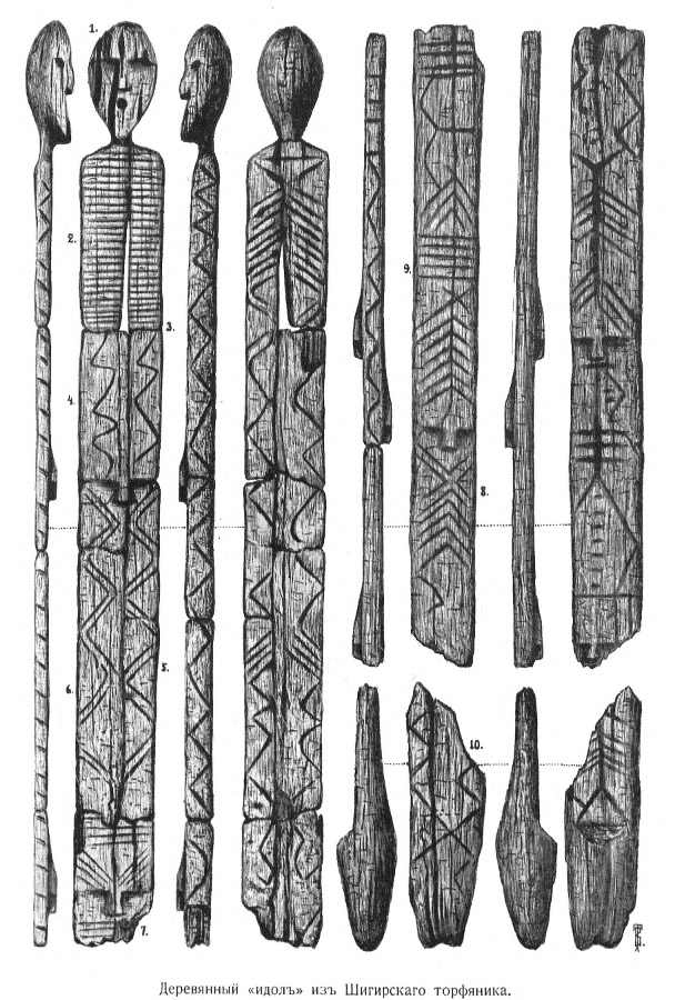 The Shigir Idol, the most ancient wooden sculpture in the world